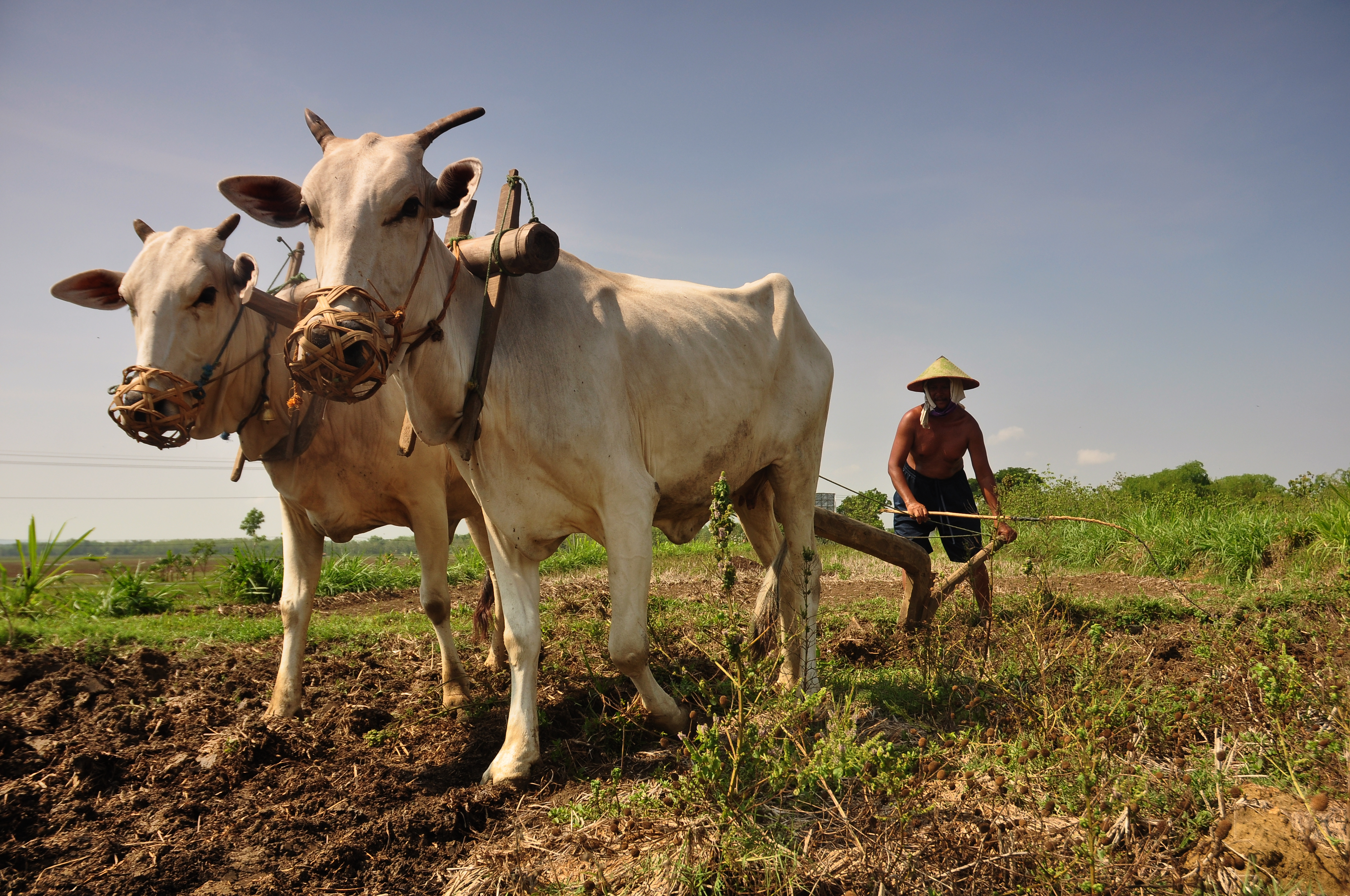 plowing the field